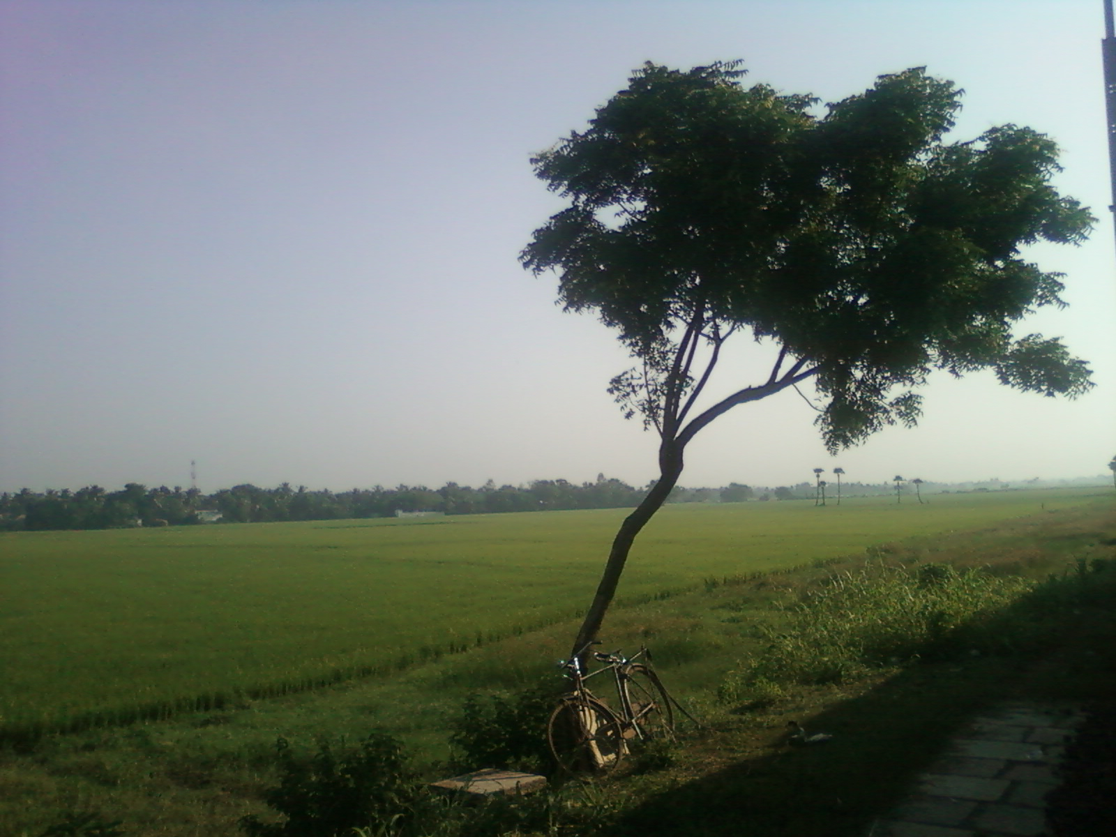 Scenic view of fields near Kovvur, West Godavari district